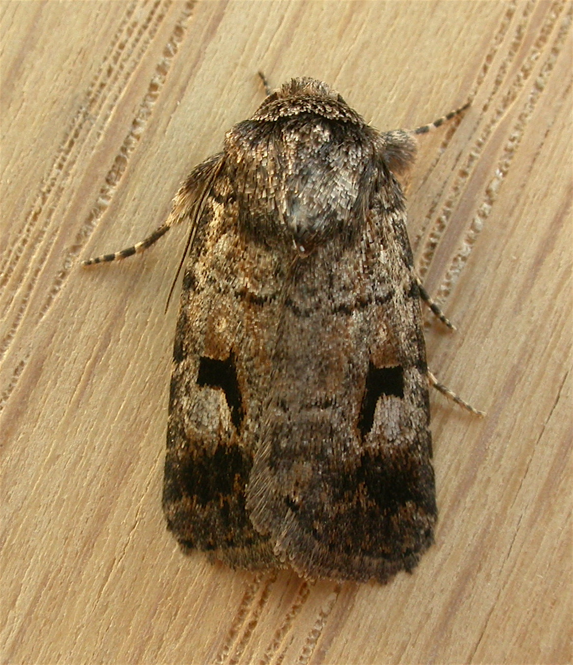 Proteuxoa sp., to MV light, Aranda, ACT, 24/25 September 2008 - this is a species close to P. flexirena, possibly P. verecunda. Note that P. flexirena has forewings strongly banded grey and brown - for examples. This specimen matches some in ANIC marked Proteuxoa sp. ?verecunda.